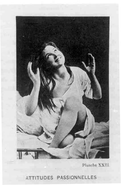 Woman under Hysteria